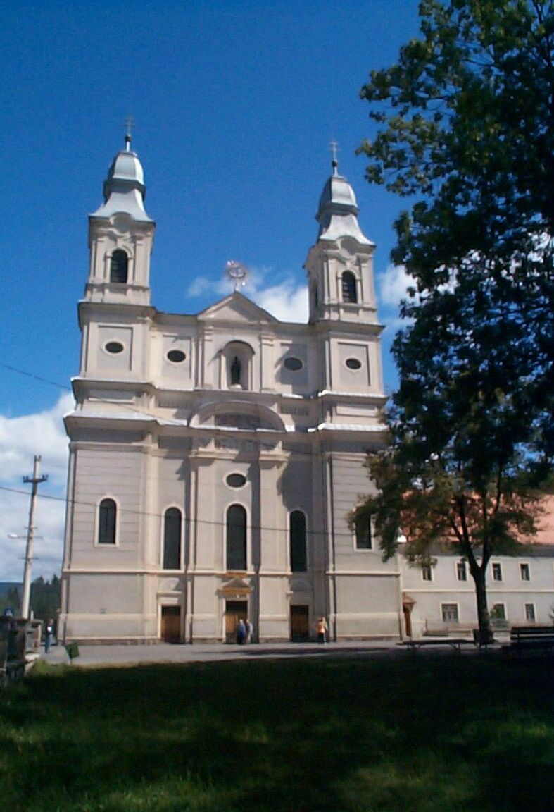 Csíksomlyó, Rumania Church